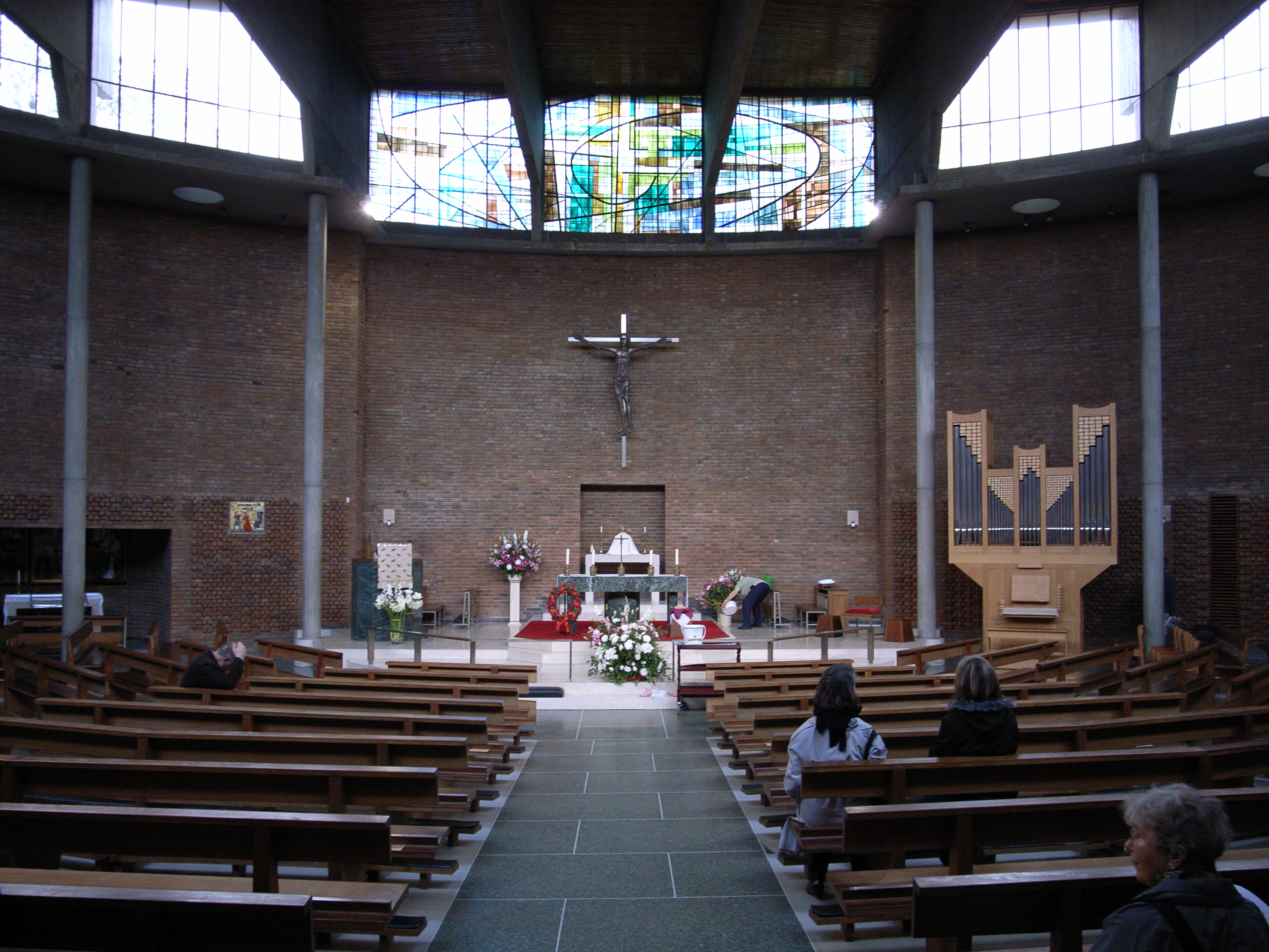 Saint Thomas More in Maresfield Gardens : interior